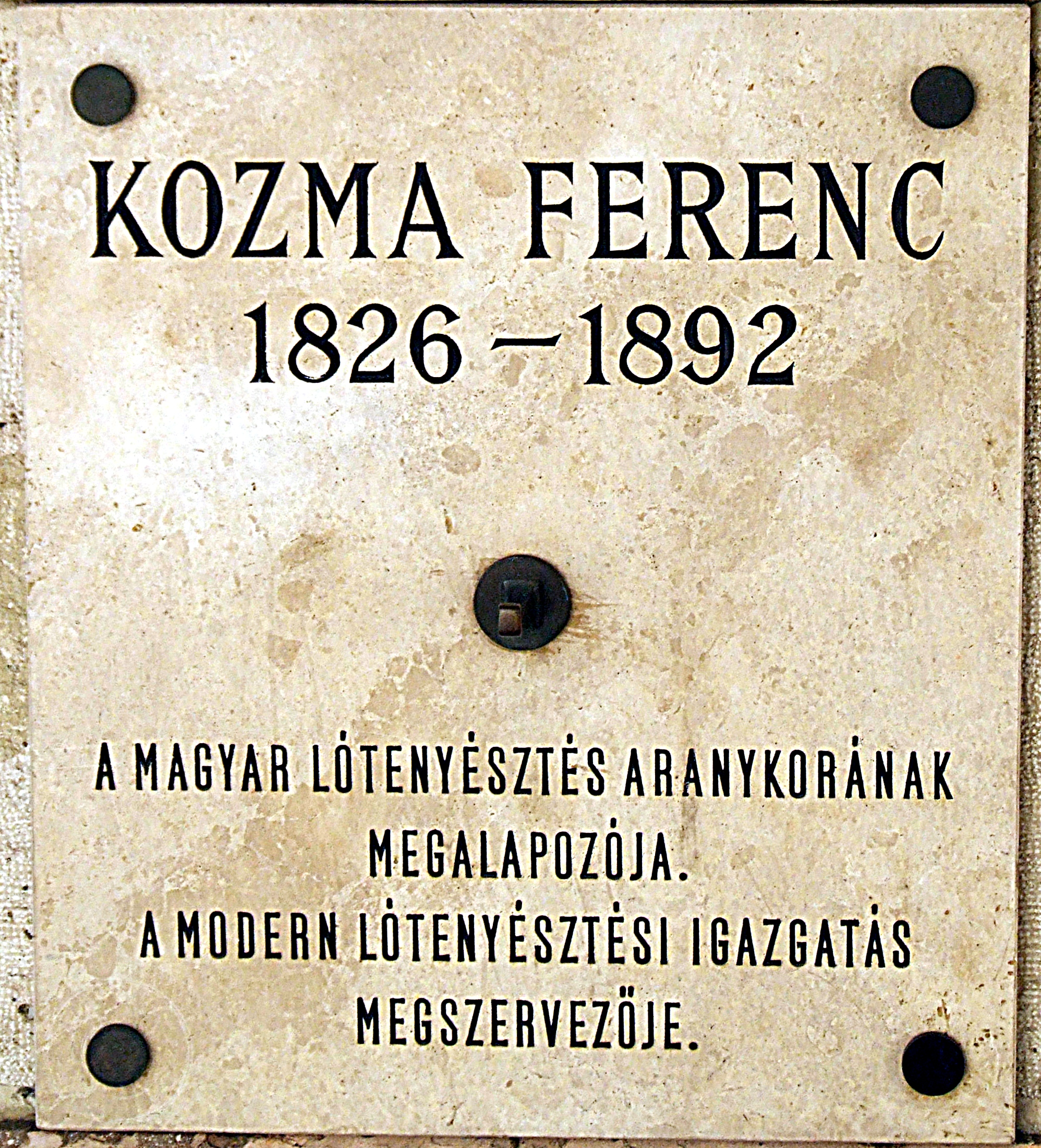 Ferenc Kozma bust detail, commemorative plaque in Budapest District V, Kossuth Lajos Square No 11